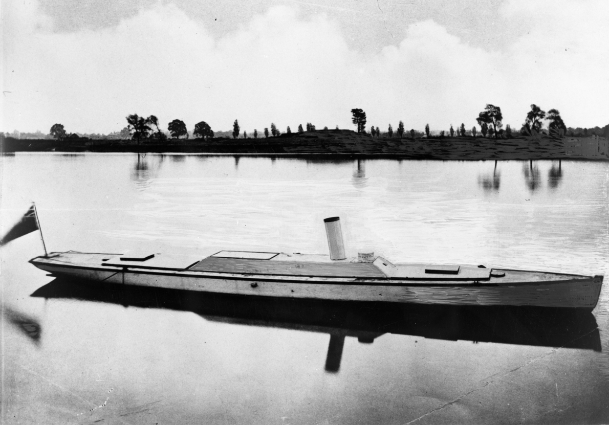 The Norwegian Torpedo boat Rap (Quick), photographed at the Thornycroft yard in Chiswick in 1873. At that time she was under British colours and was named Maelstrom. She arrived by freighter in Göteborg, Sweden in November 1873, and steamed the last stretch to Horten in Norway.